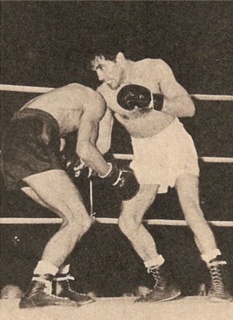 Pascual Perez (a. Pascualito), Argentine boxer. Flyweight Champion of the World (1954-1960), and Olympic Gold Medal at 1948 Summer Games (London).